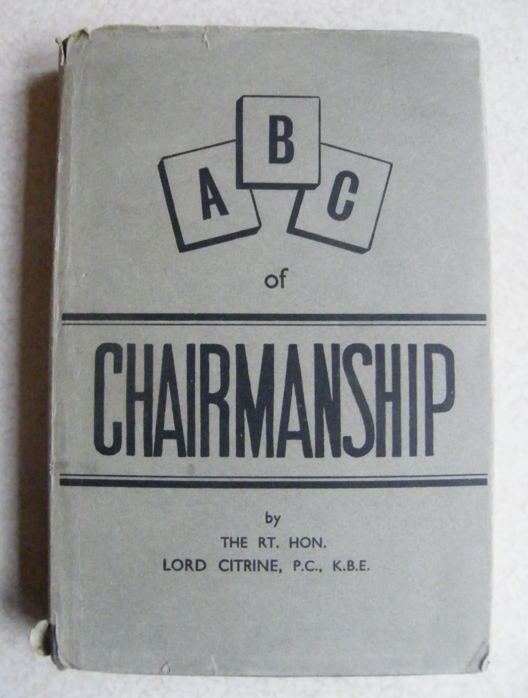 First edition cover of ABC of Chairmanship from 1914, by Walter Citrine